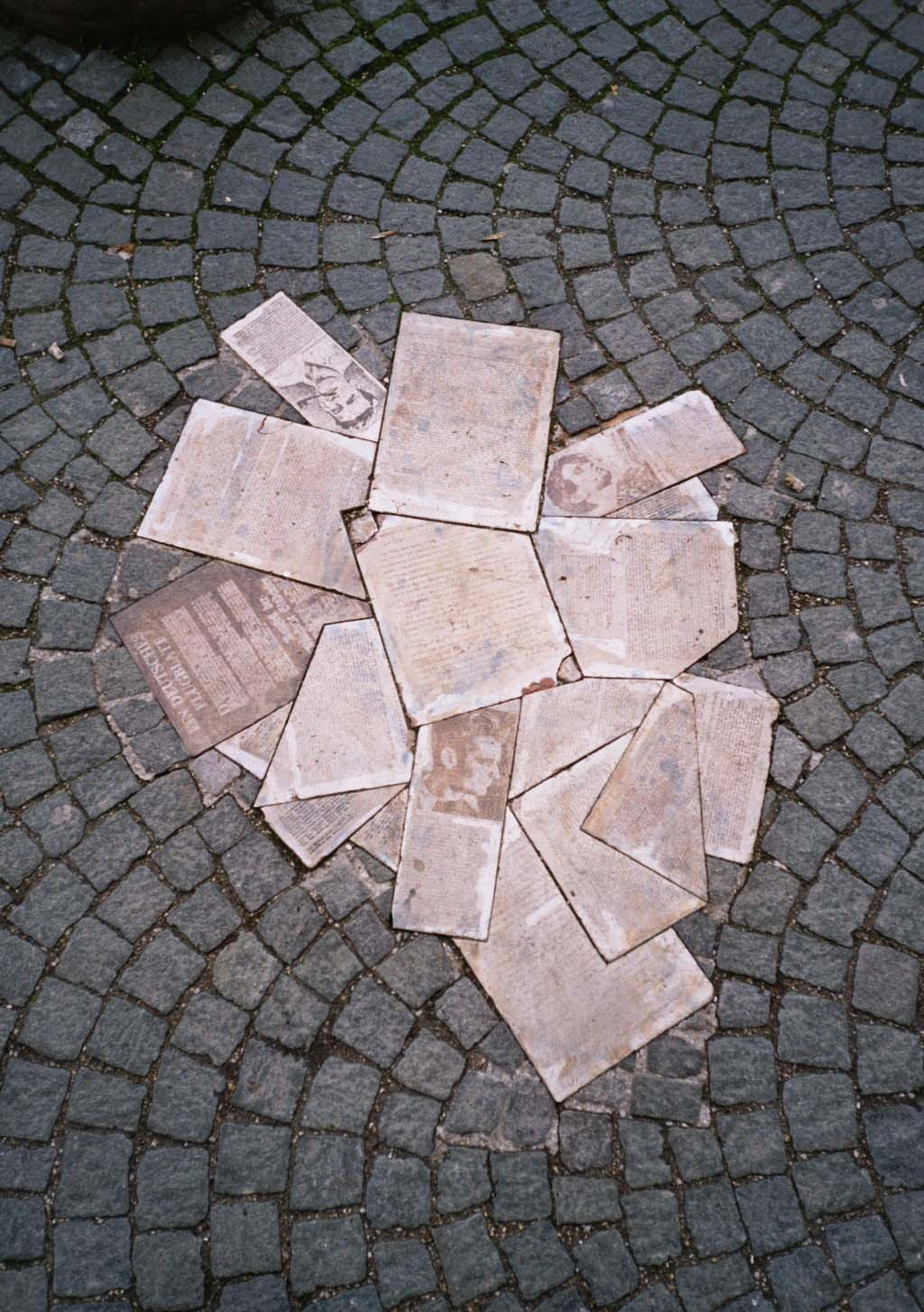 Monument to Hans and Sophie Scholl and the "White Rose" (German: Die Weiße Rose) resistance movement against the Nazi regime, in front of Ludwig Maximilian University of Munich, Bavaria, Germany.